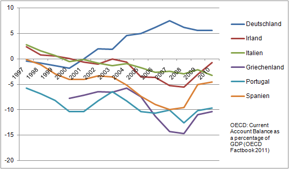 Selected govs; source: OECD (2010), "Balance of Payments", in OECD, OECD Factbook 2010: Economic, Environmental and Social Statistics, OECD Publishing.